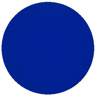 Example of IKB,a colour used by Yves Klein